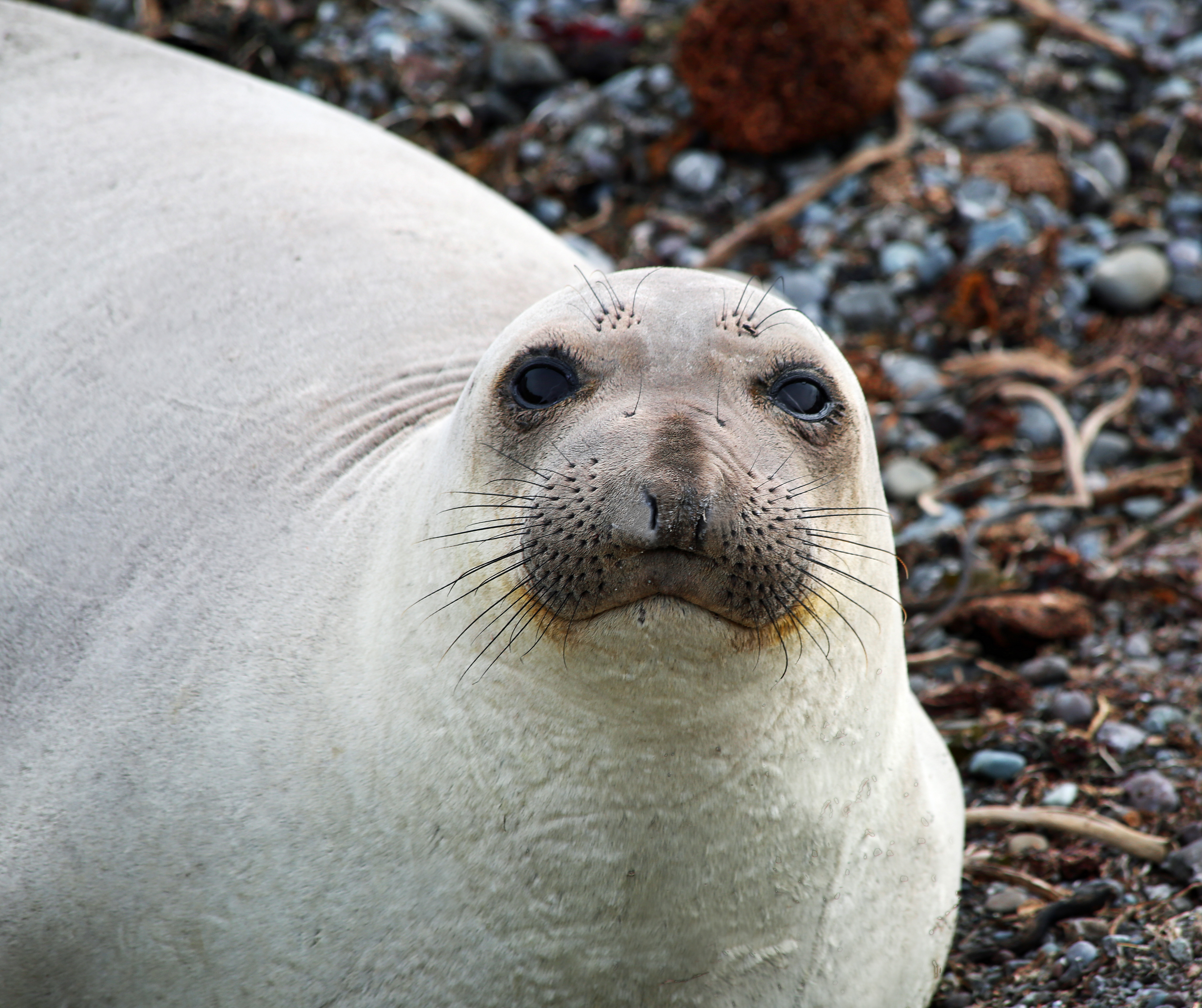 Female sea elephant just north of San Simeon, California.